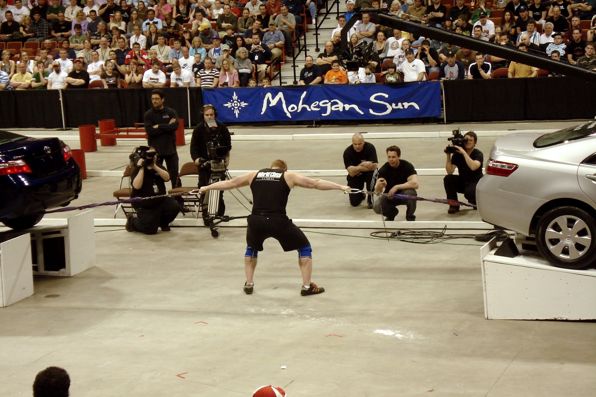 Marshall White at the Hercules Hold.